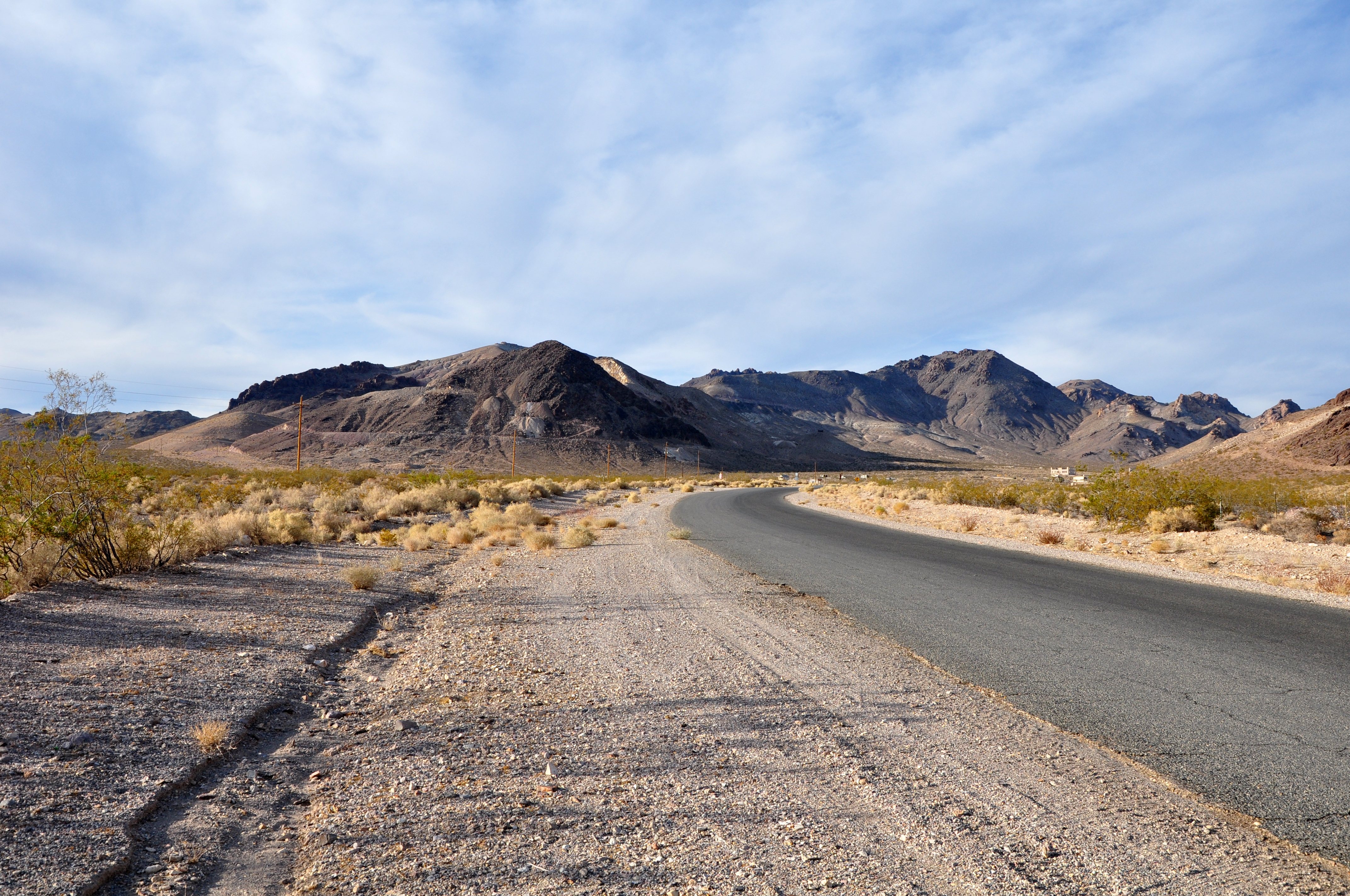 Bullfrog Hills in southwestern Nevada, United States. View is to the north along the spur road leading from State Route 374 to Rhyolite, a ghost town. The road curves around the base of Ladd Mountain to the right and passes Bonanza Mountain, to the left as it enters town on Golden Street. The ruins of the Rhyolite schoolhouse and other structures are visible in the background on the right.